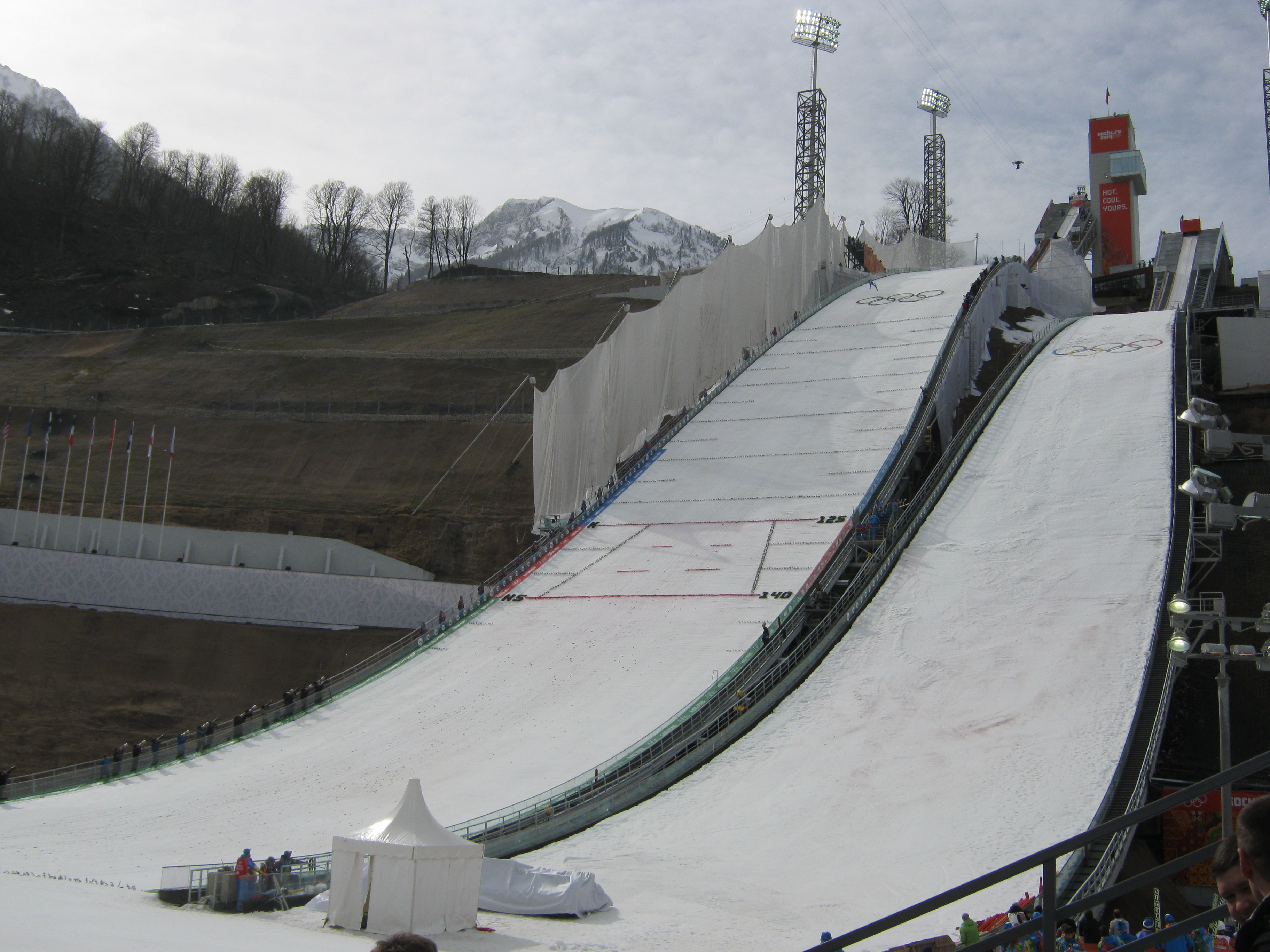 RusSki Gorki Jumping Center. Nordic combined at the 2014 Winter Olympics – Team large hill/4 × 5 km. February 20, 2014